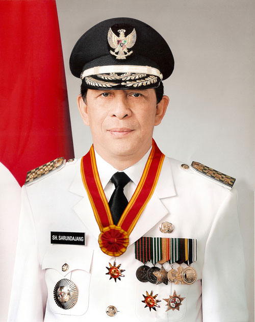 Official photo of Sinyo Harry Sarundajang as the Governor of North Sulawesi. Published by the North Sulawesi Provincial Government (originally obtained in 2010 from